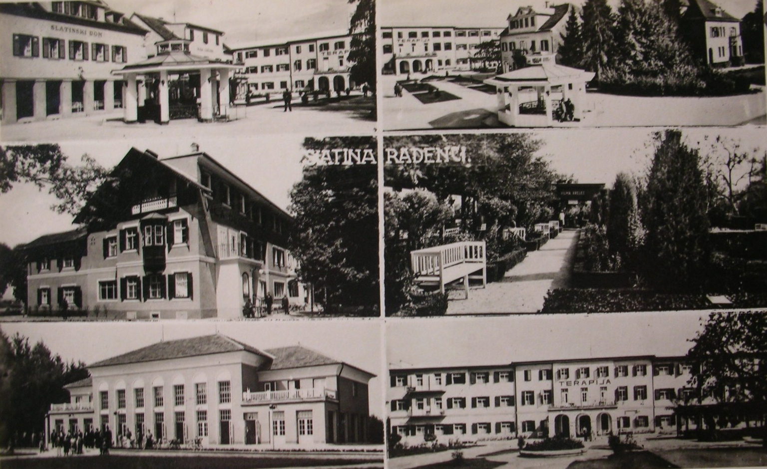 Postcard of Radenci.